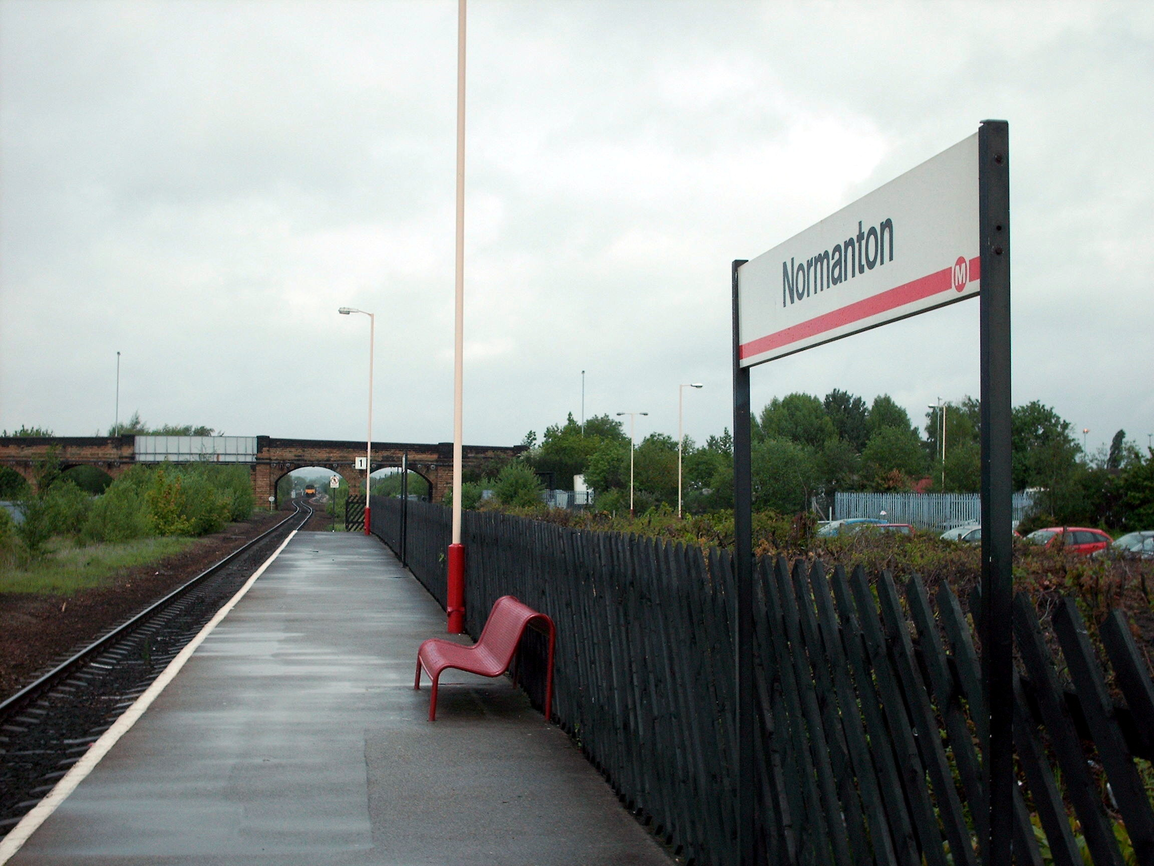 Normanton railway station, West Yorkshire. Platform 1. Old style of platform sign in 2006.